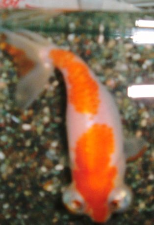 chotengan(goldfish)